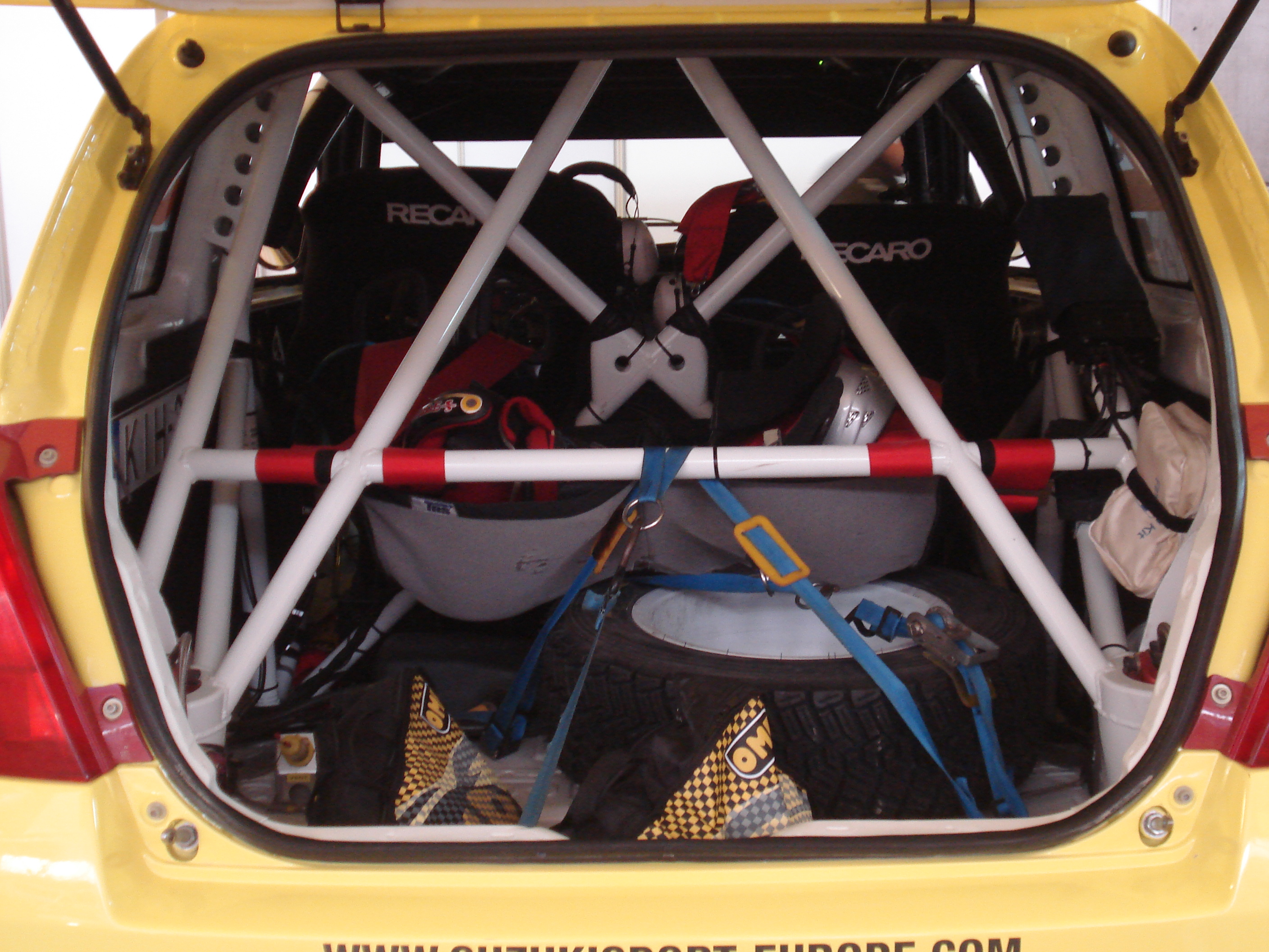 Jaan Mölder's Suzuki Swift S1600 parked prior to the 2008 Rally Mexico at rally base in the Poliforum in Leon, Mexico.